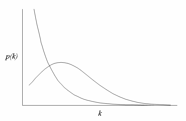 Comparison of digree distributions of random and scale-free networks